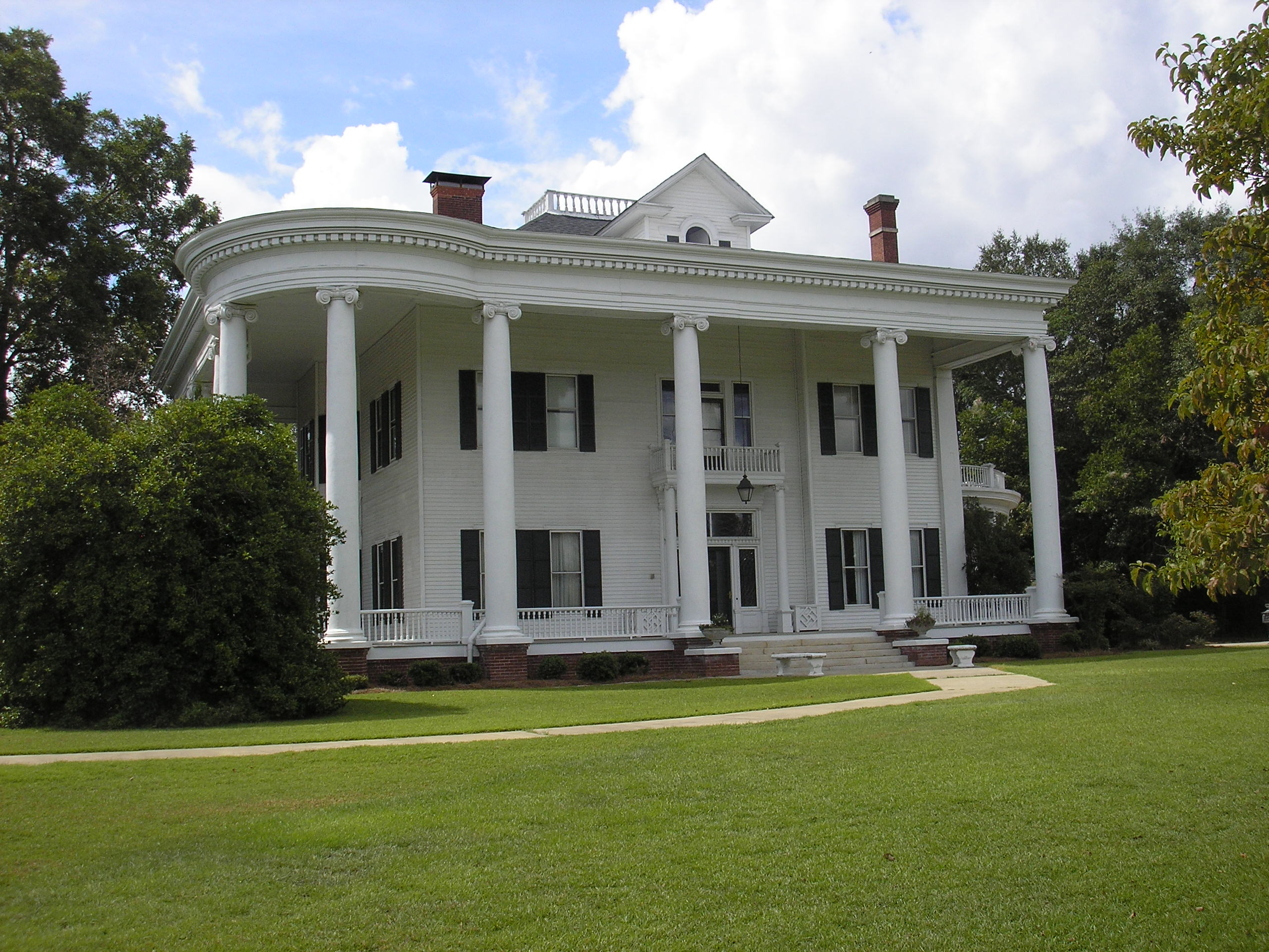 Robert and Missouri Garbutt House